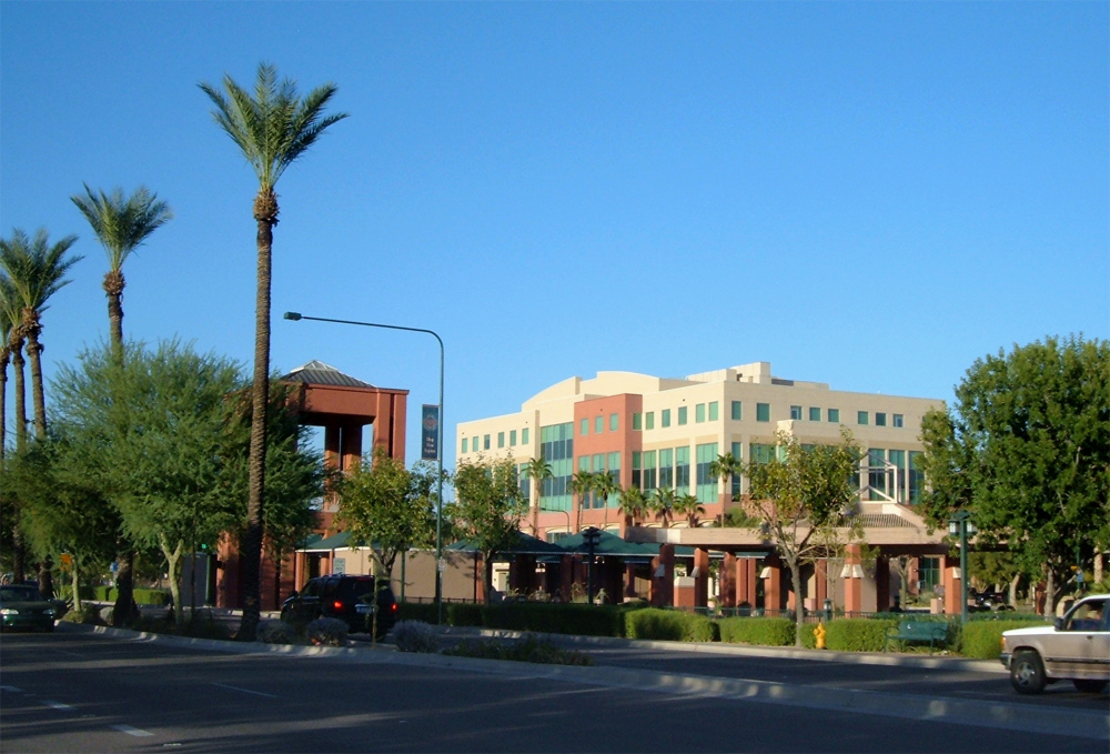 Photograph of the downtown area of Chandler, Arizona. Taken from the west side of the sidewalk about 100 feet north of the intersection of Boston Street and Arizona Avenue. The light-colored building is the Chandler Office Center. This photograph was taken by me and modified using Photoshop.